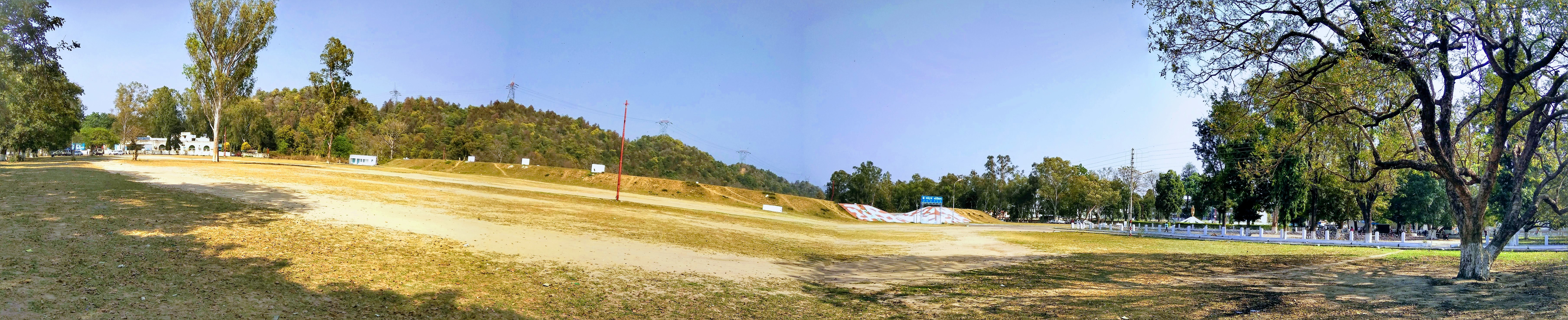 BHEL SPORT STADIUM RANIPUR, HARIDWAR (UTTRAKHAND)